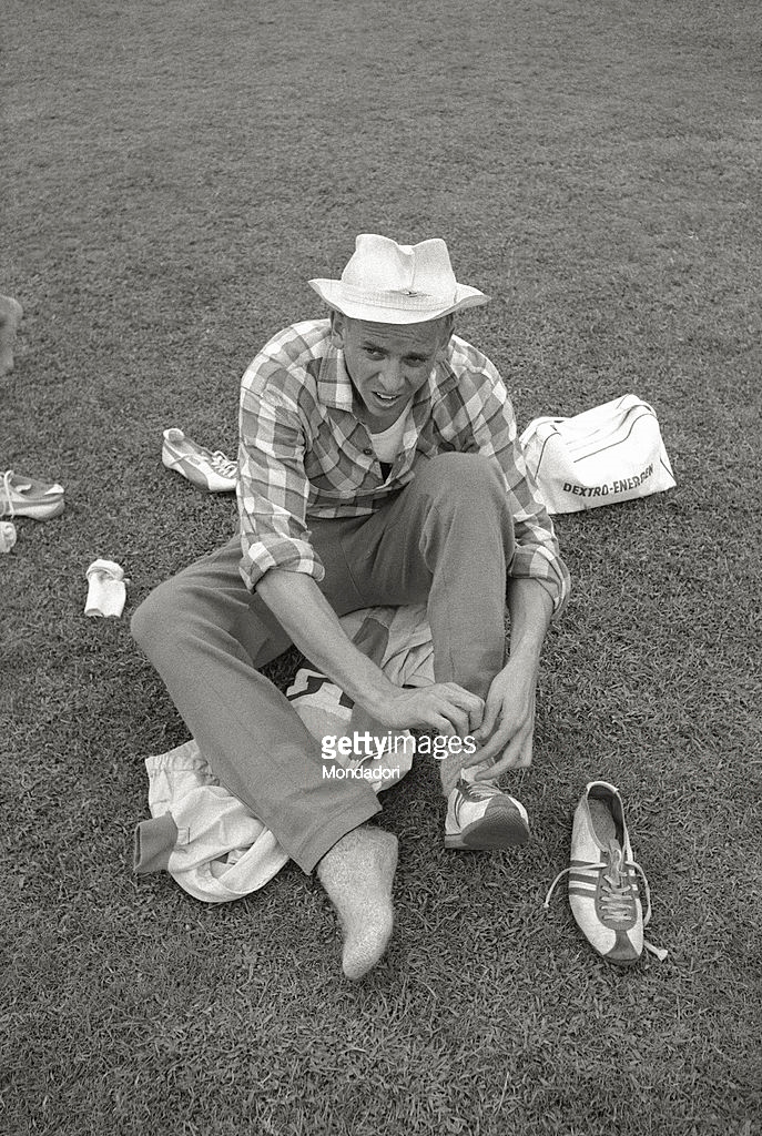 Armin Hary at the 1960 Olympics